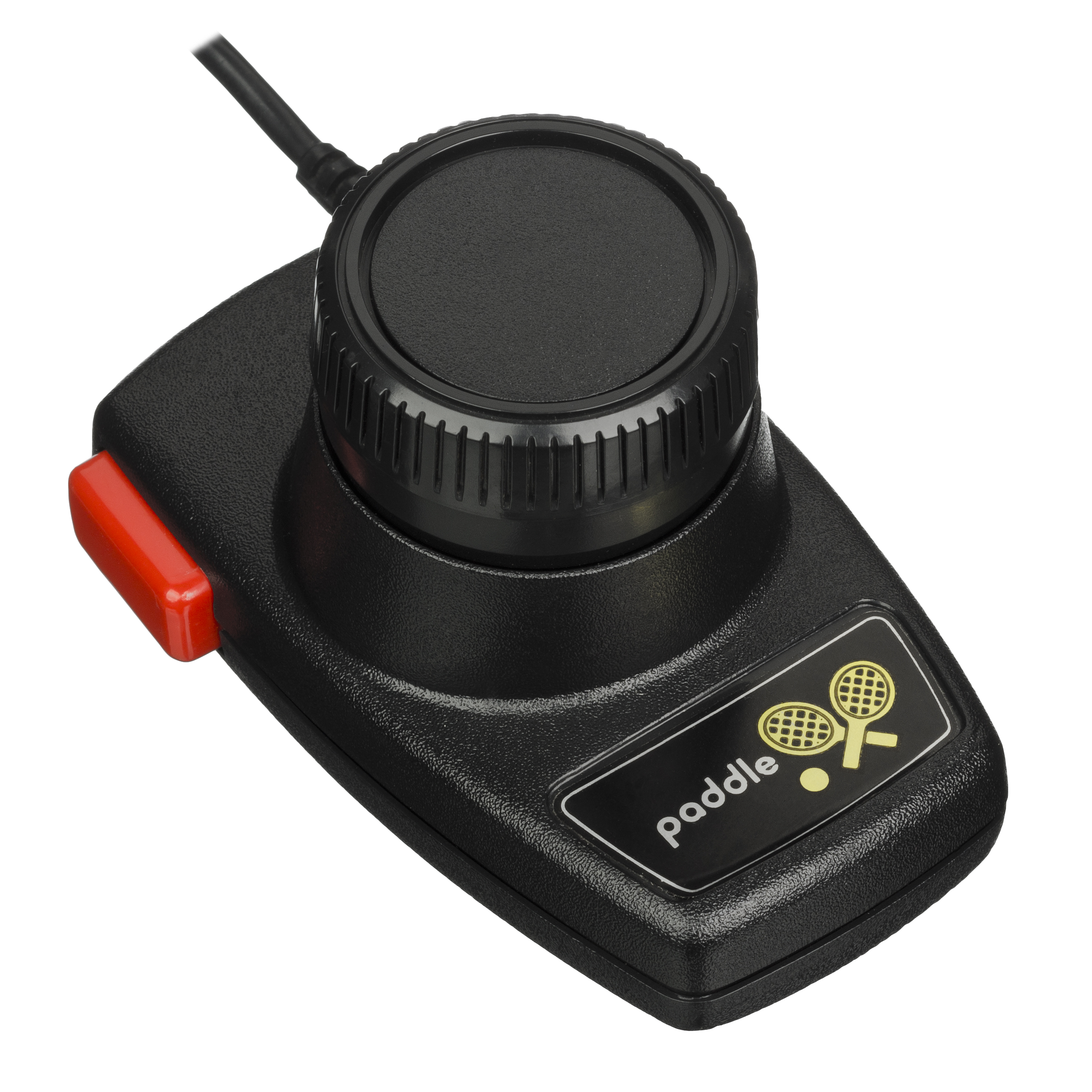 The paddle controller for the Atari 2600 video game console. Packed-in with most variants, this controller features a dial versus a joystick, and was mainly meant for Pong-style games. Two paddles were attached to one controller input cable.